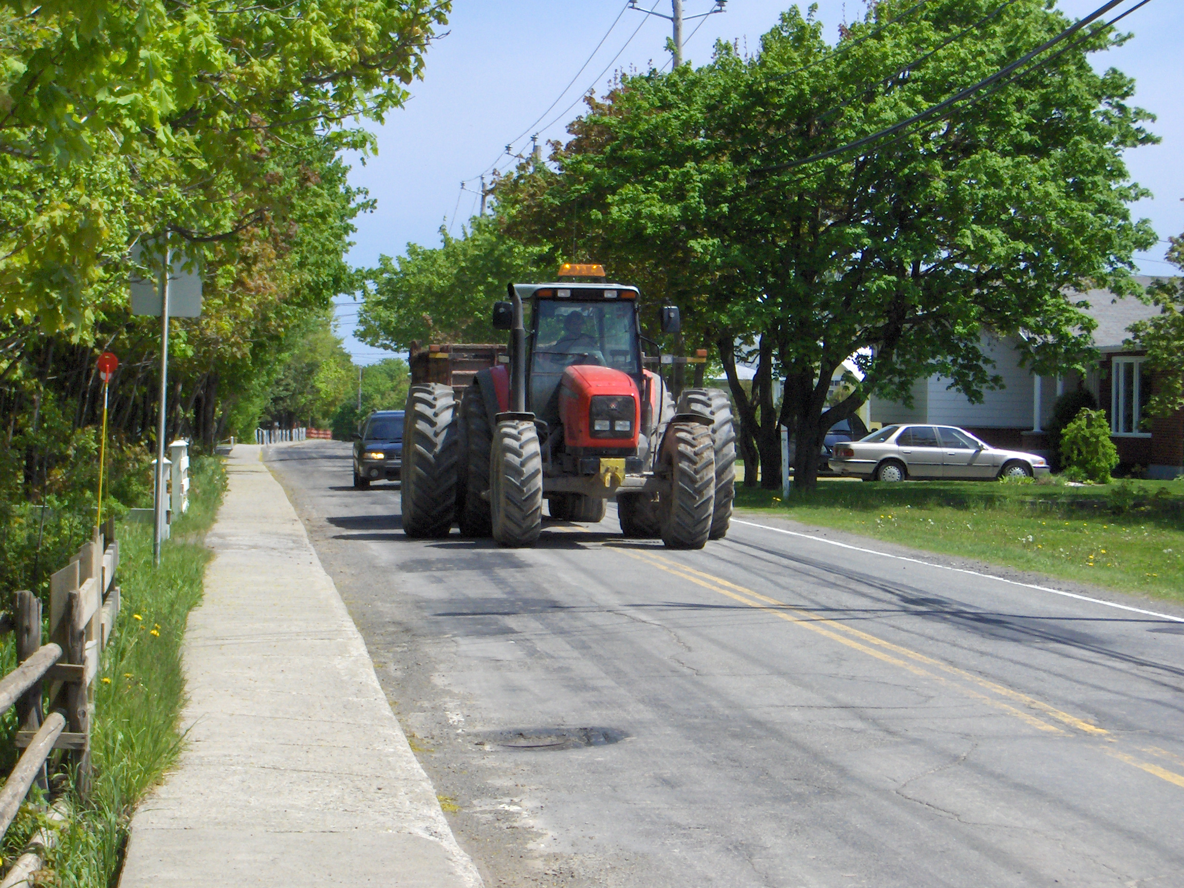 Tractor on the road. Picture taken at Cacouna, Québec, Canada, 12th of June 2005.